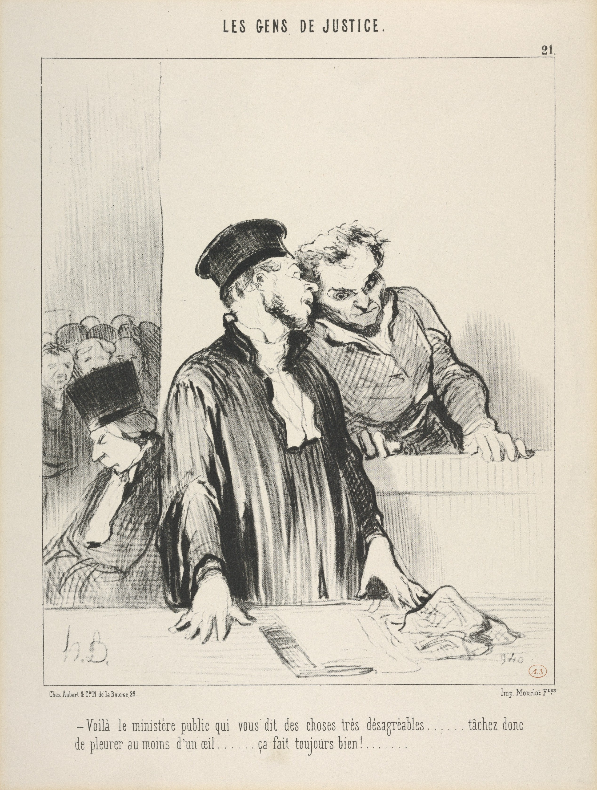 Print; Prints